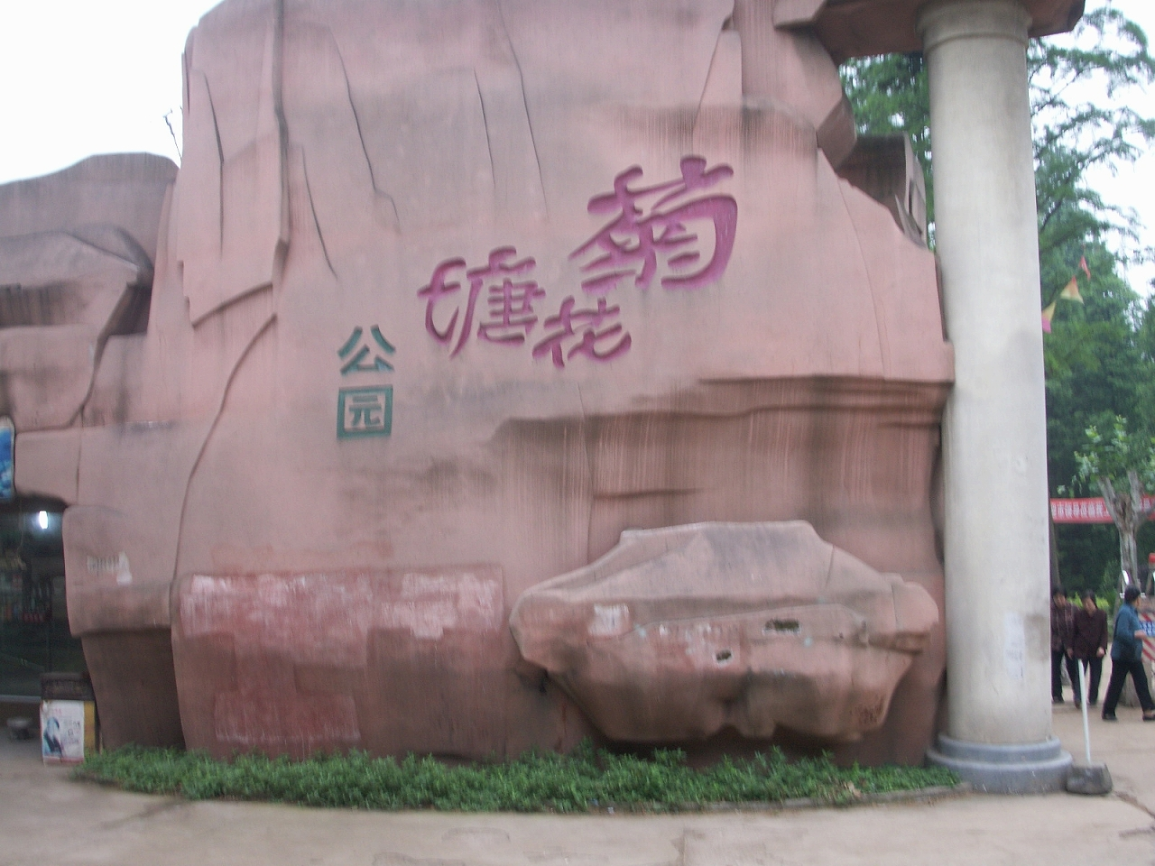 xiang tan city and hikone city memorial park